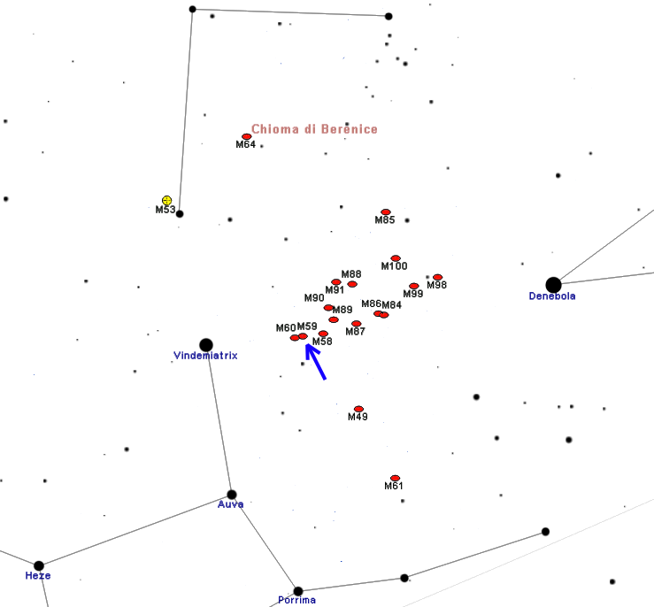 Map of M59